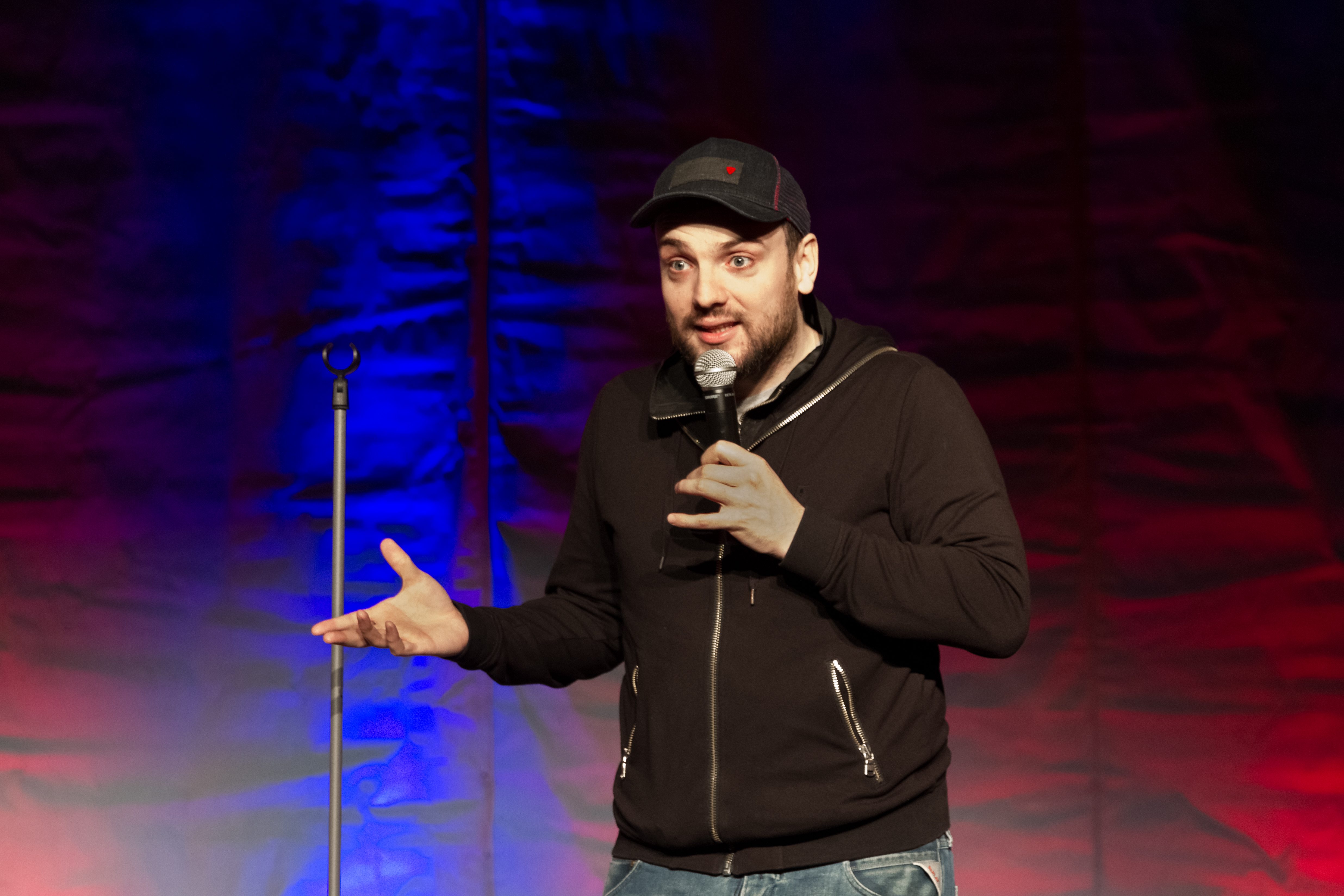 Ingmar Stadelmann live@ Scala-Club Leverkusen-Opladen 2015